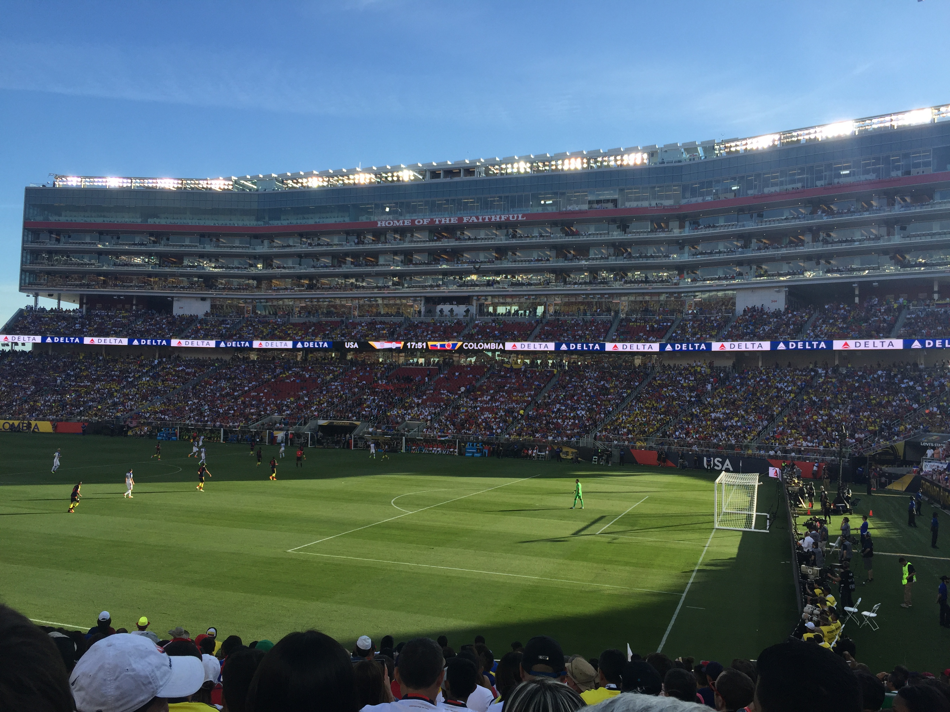 USA vs Colombia on June 3, 2016